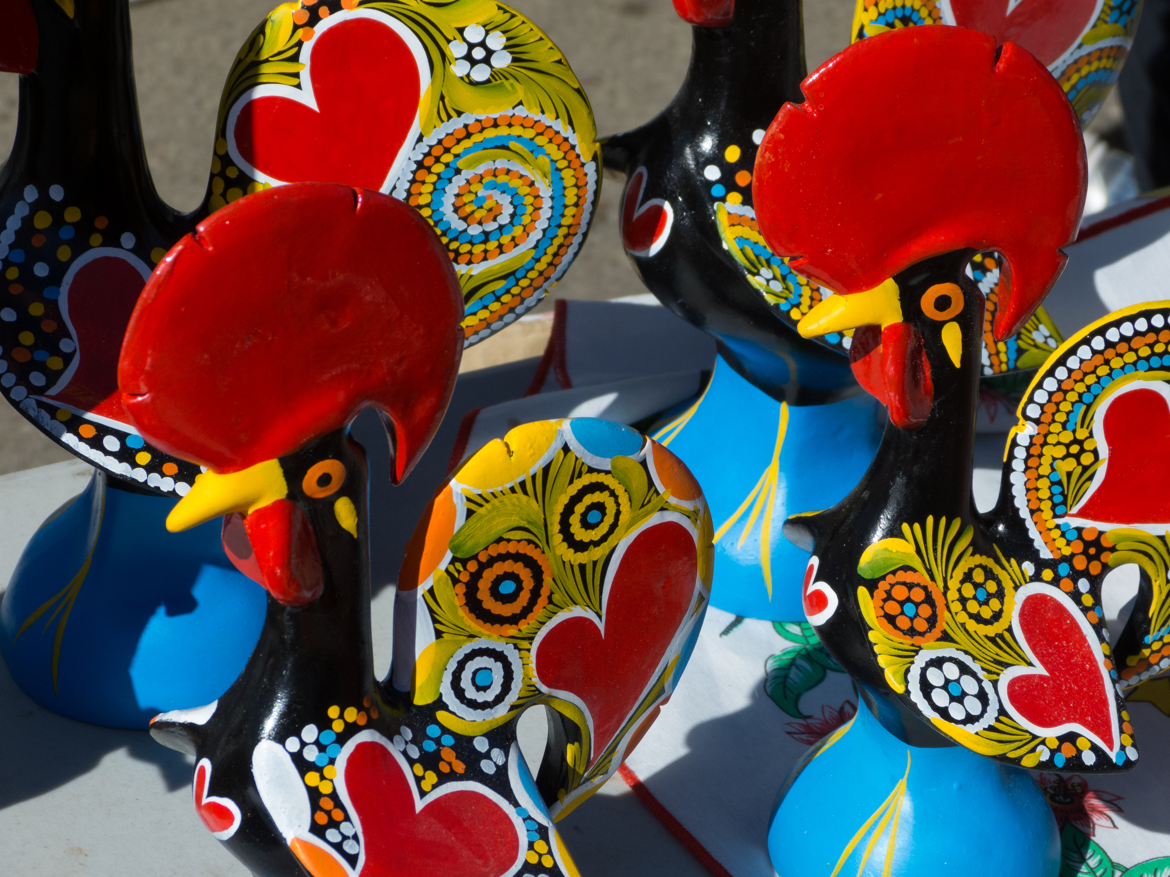 thornton2012-053